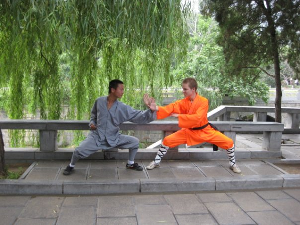 two shaolin kung fu students sparring